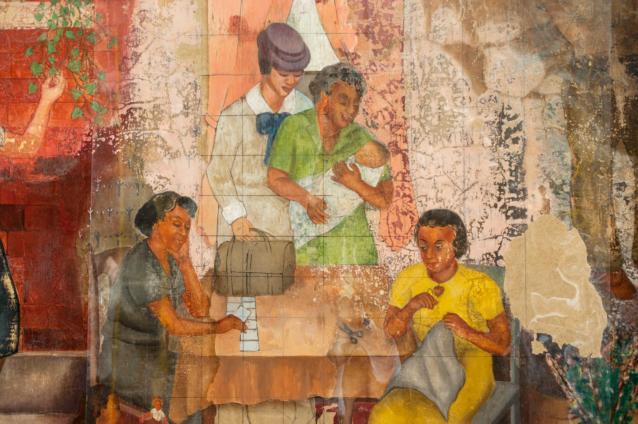 Detail of 'Recreation in Harlem', a mural executed at Harlem Hospital Center in New York City in 1936 by Georgette Seabrooke and restored in 2012.